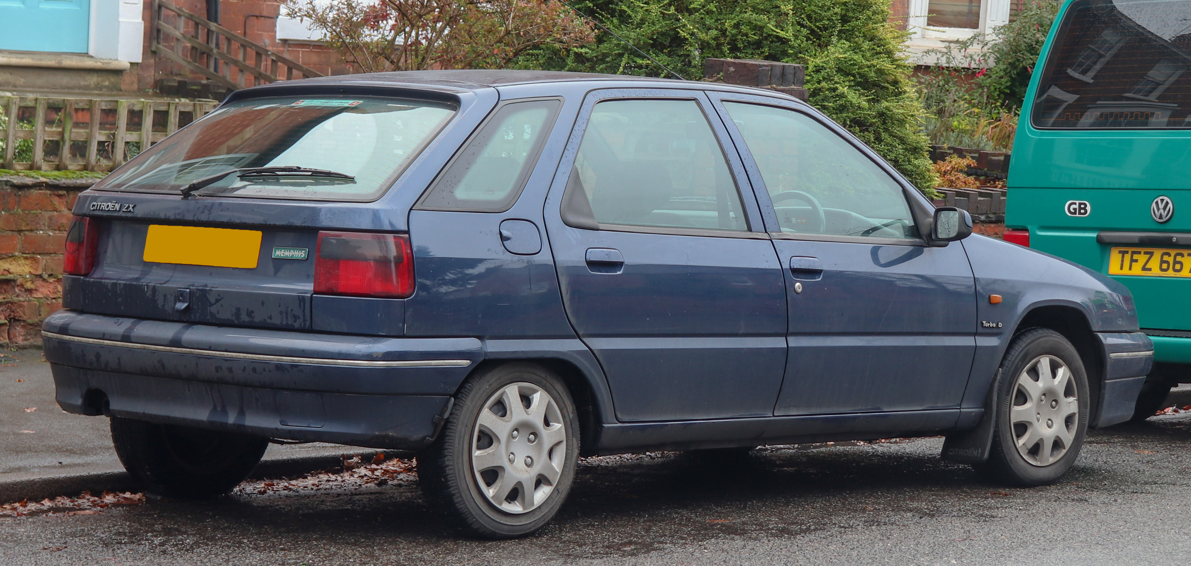 1995 Citroen ZX Memphis TD 1.9 Rear Taken in Leamington Spa